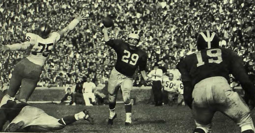 Photograph of Wally Gabler (No. 29) preparing to pass to Carl Ward (No. 19)